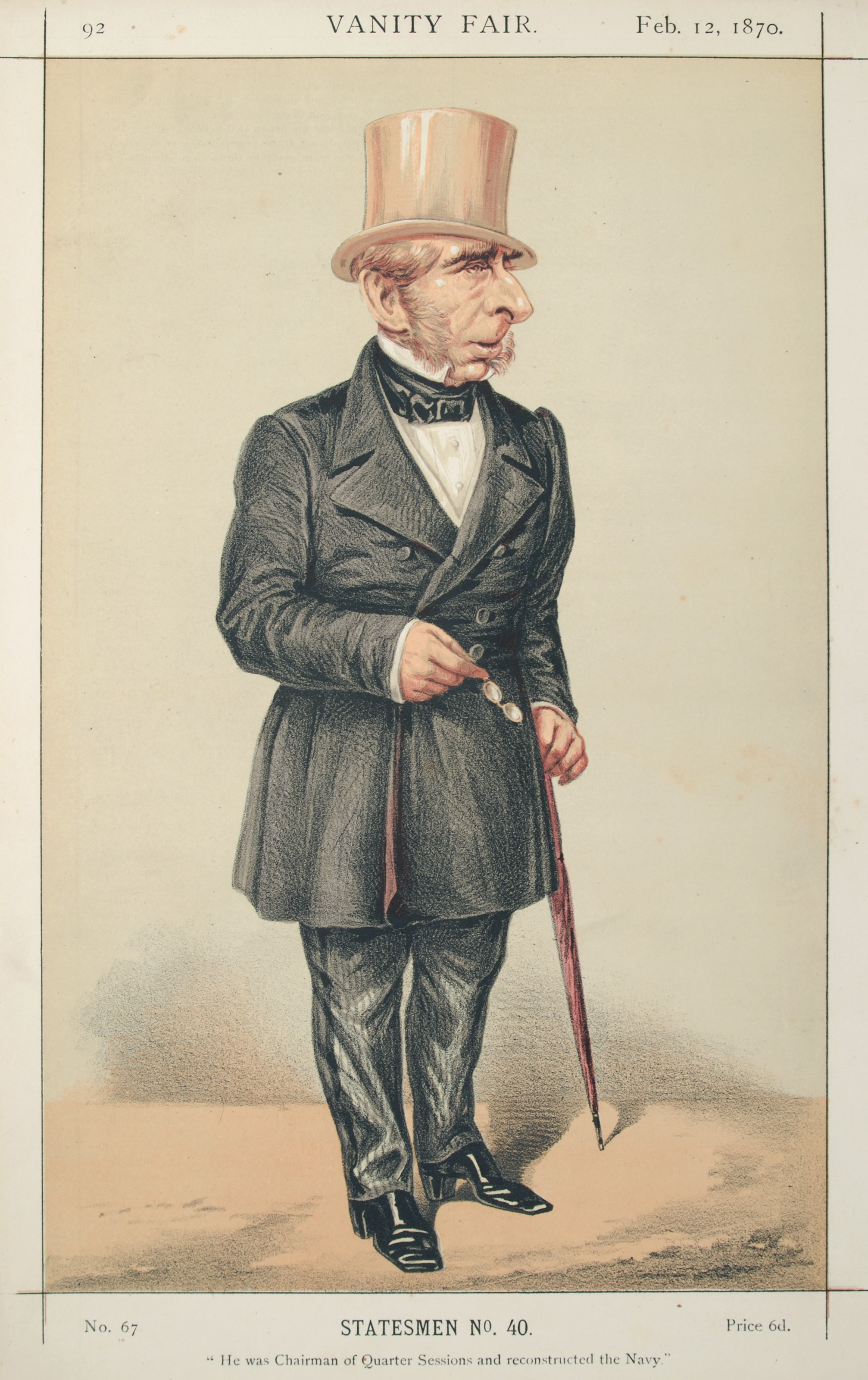 Statesmen No.40: Caricature of Sir John Pakington. Caption reads: "He was Chairman of the Quarter Sessions and reconstructed the Navy."